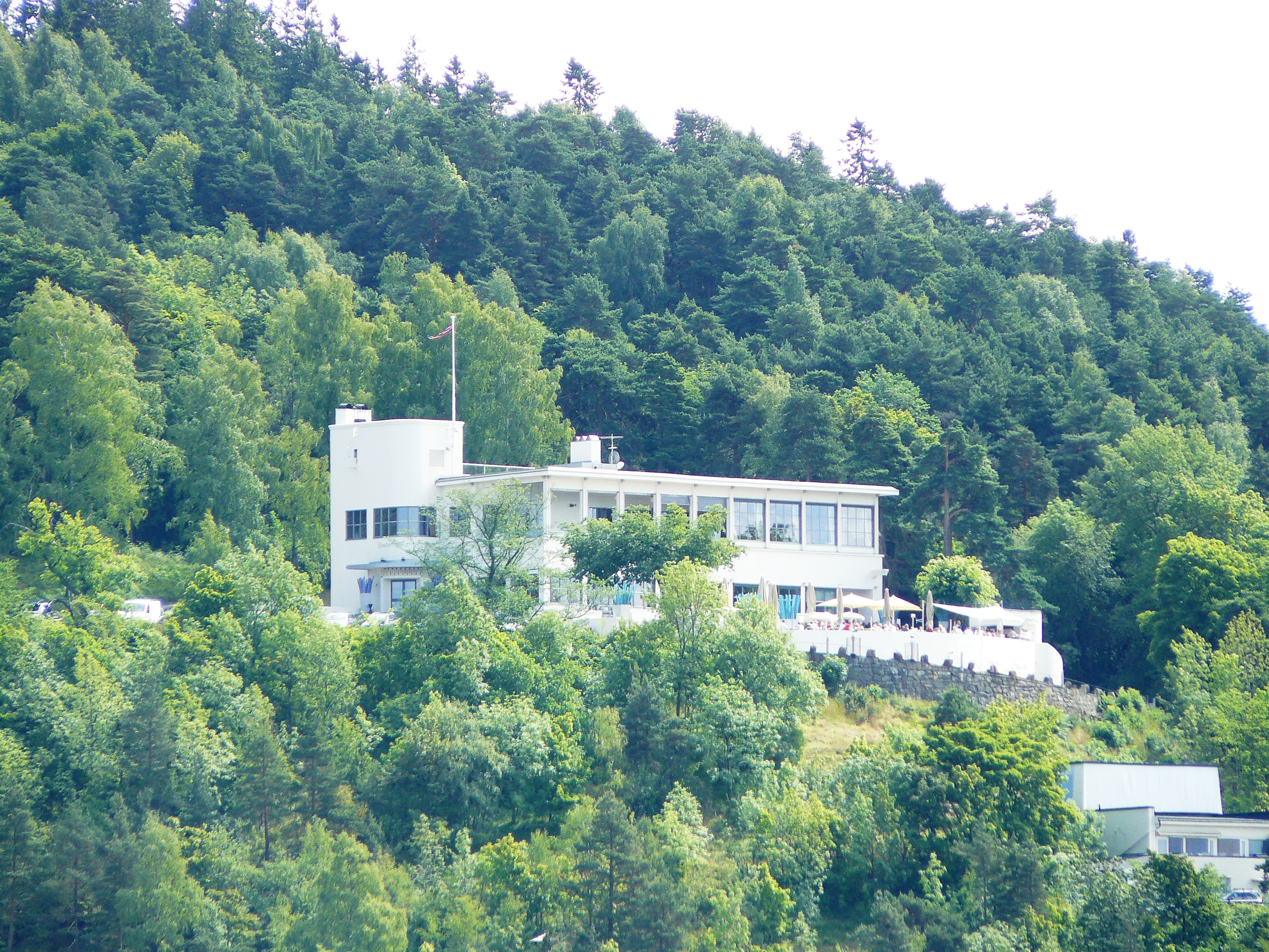 The Ekeberg Restaurant in Oslo